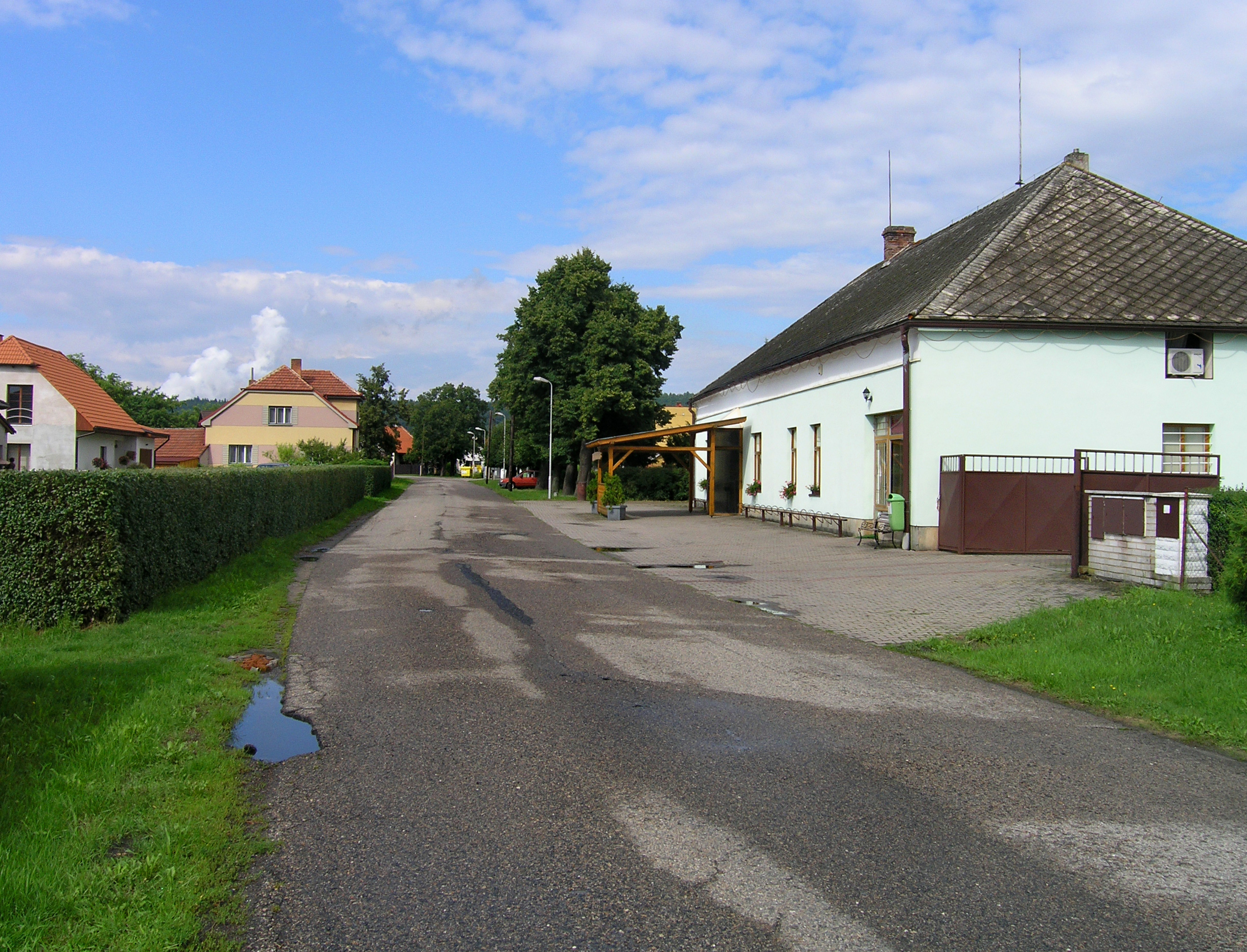 Restaurant in Horka I village, Czech Republic